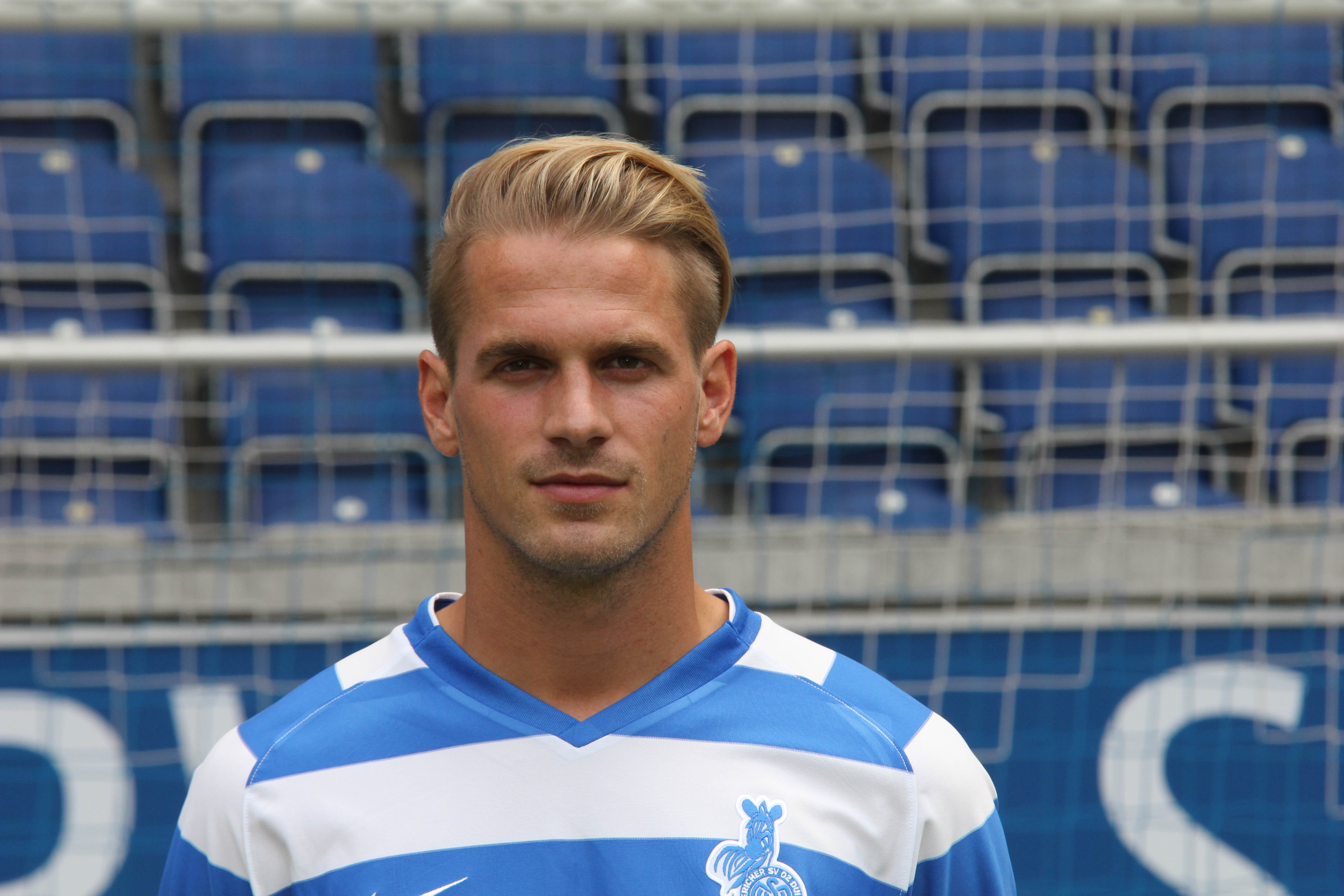 German footballer Sören Brandy, MSV Duisburg